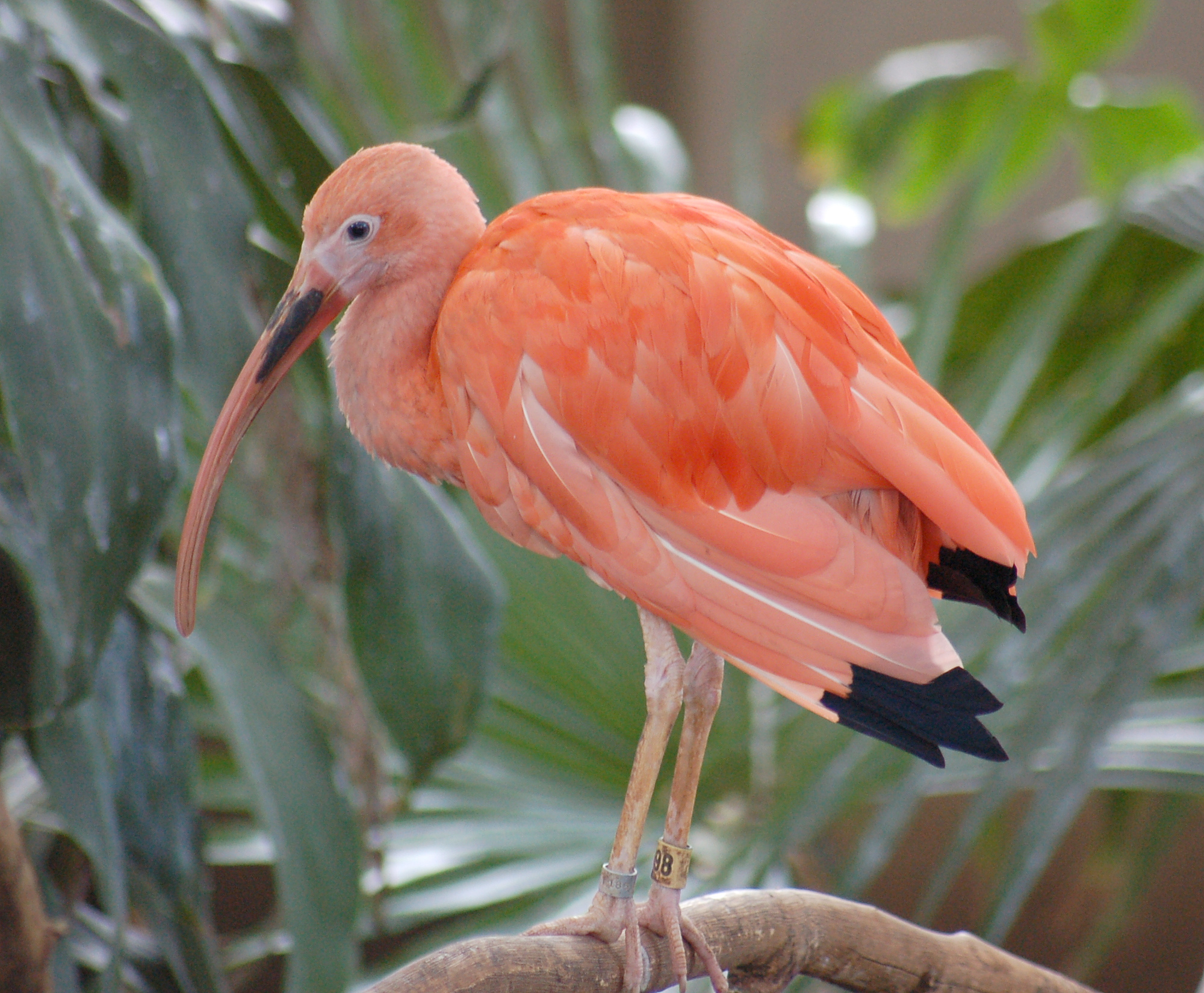 A photograph of a Scarlet Ibisen (Eudocimus ruber en ). Photo taken at the National Aviary.